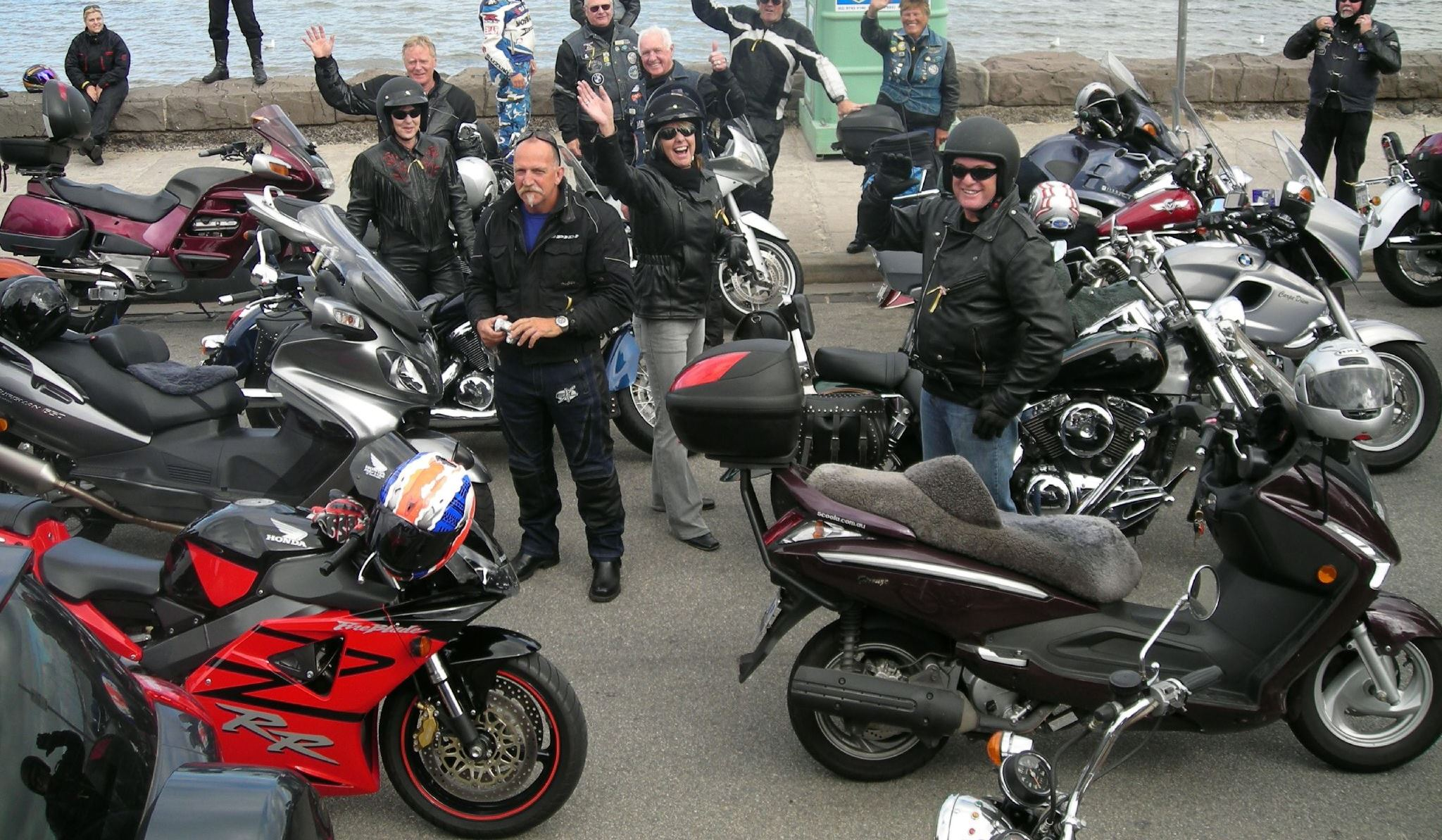 Group of motorcyclists in Ride for the Hills charity event